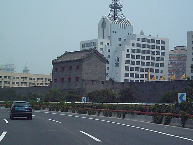 Xibianmen Gate as seen from the 2nd Ring Road